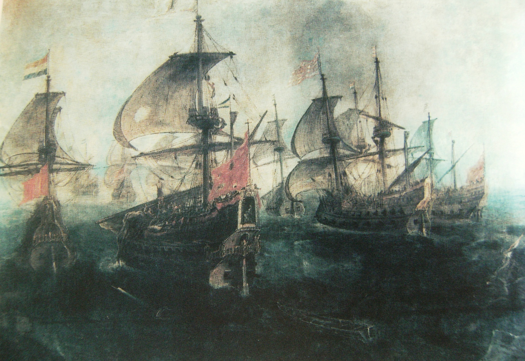 Battle of Gibraltar (1621), Second view.